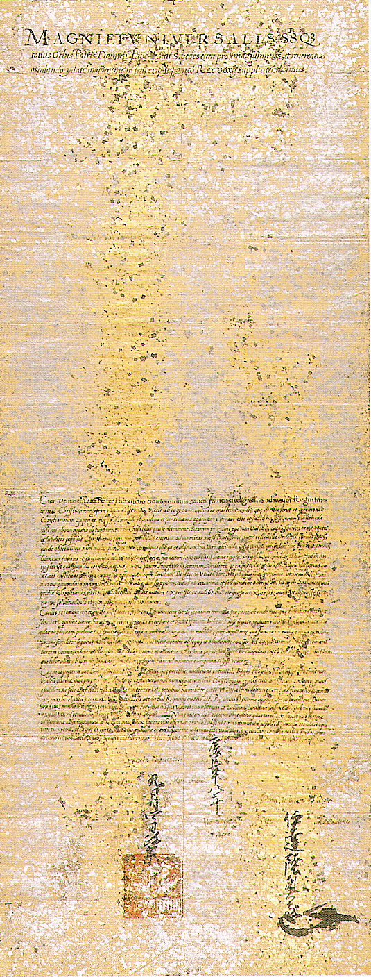 Letter of Date Masamune to the Pope, in Latin. 1613. Text Partial transcription: MAGNI ET UNIVERSALIS SISQ3 [SISQ3 = Sanctissimique] totius Orbis Patris Domini Pape Pauli s. pedes cum profunda summisse et reuerentia [s. prob. = sanctos, summisse prob. = summissione] osculando ydate masamune * Imperio Japonico Rex voxu suppliciter dicimus. Cum venisset Pater Ludovicus Sotelo ordinis sancti Francisci religiosus ad nostrum[?] Regimen, 1613